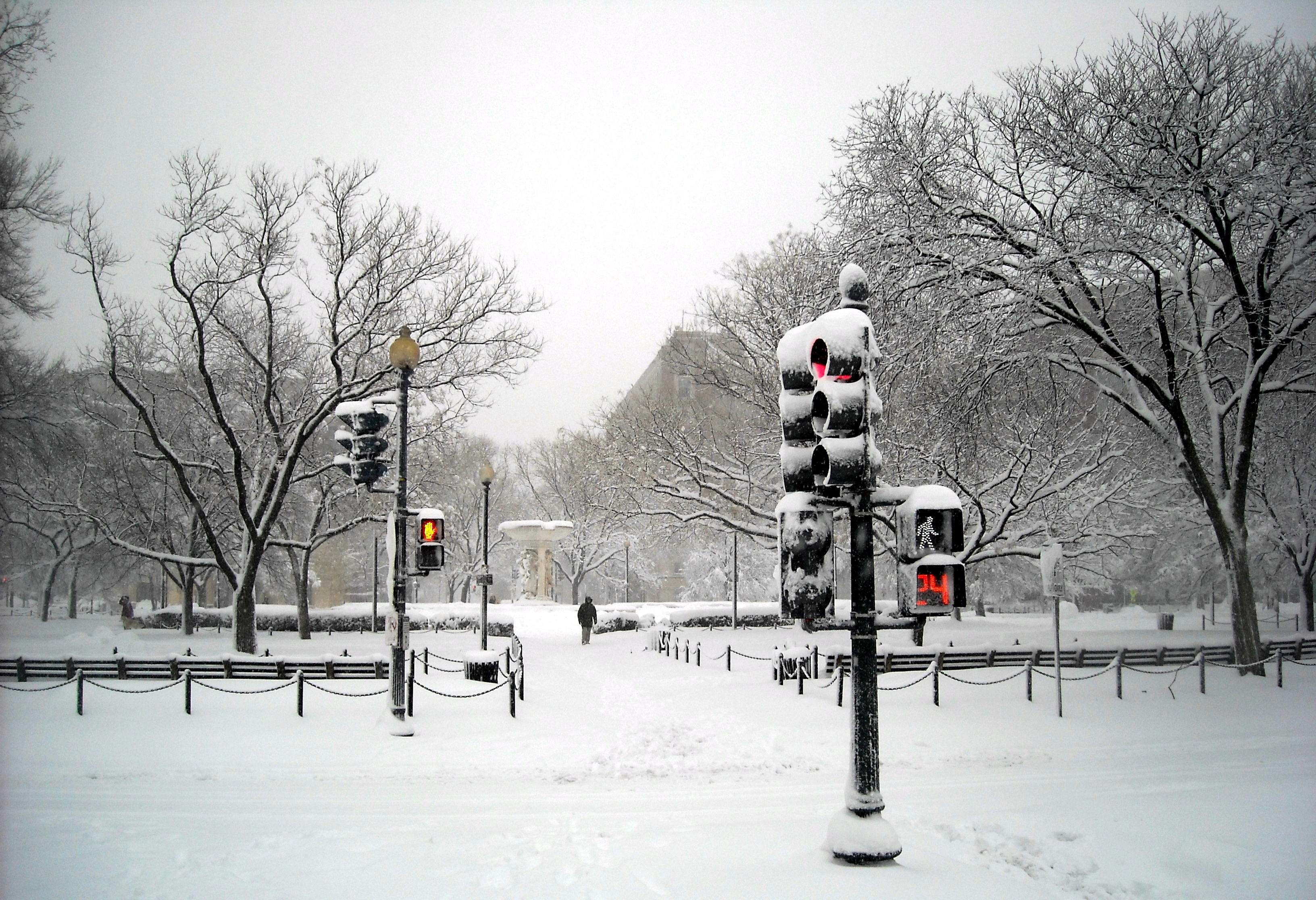 Snow falling in Dupont Circle, Washington, D.C., during the North American blizzard of 2010.